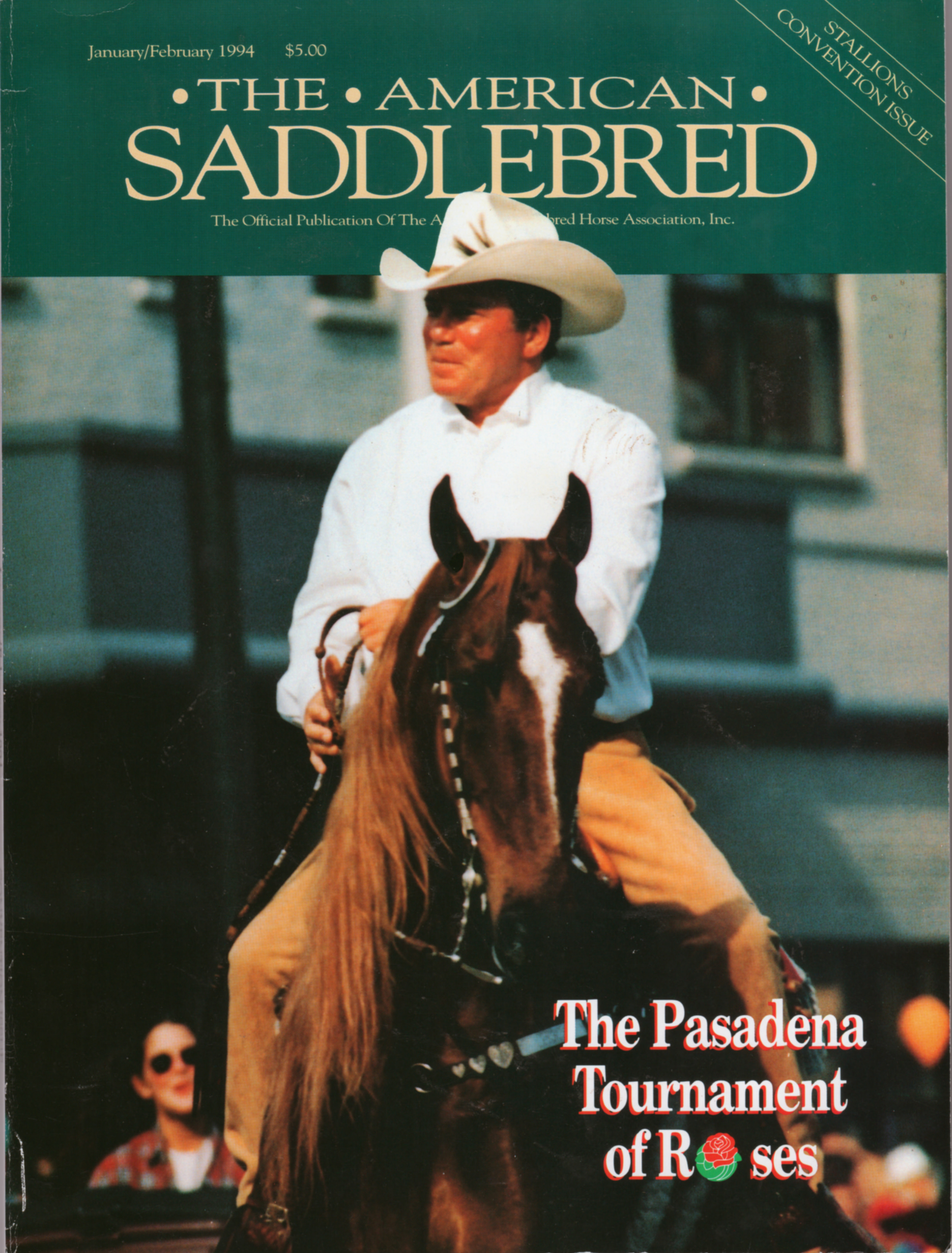 Cover of January/February 1994 issue of American Saddlebred magazine